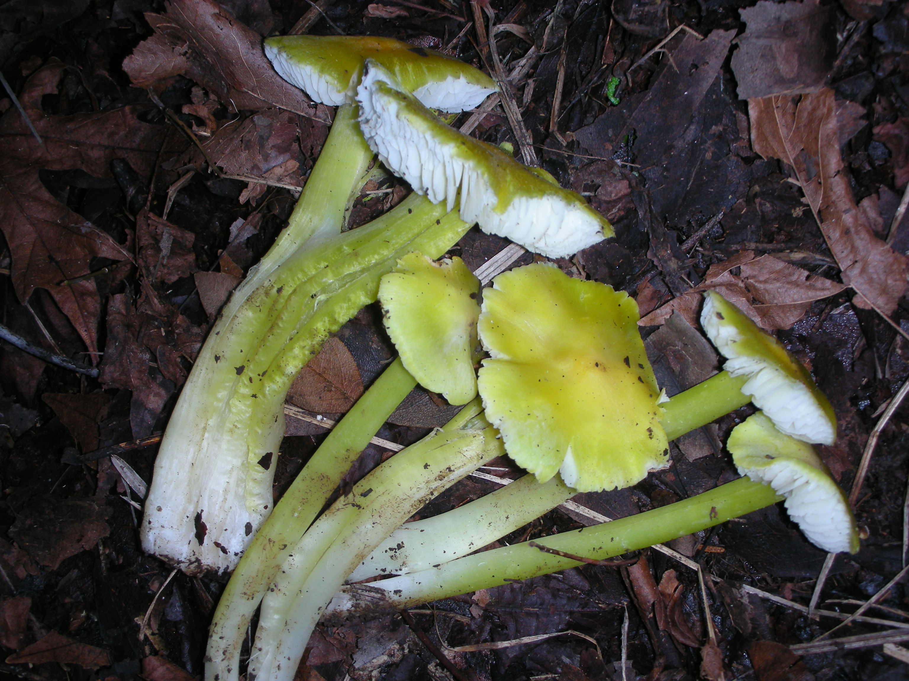 The mushroom species Hygrocybe virescens (Hesler & A.H. Sm.) Montoya & Bandala. Photographed in Samuel P Taylor State Park, Marin Co. California, USA. Notes: "Many of these were larger than what is described in the literature. The caps were up to 6.7 cm broad and the stipes were up to 12.5 cm long. Coincidently, this rather rare species also showed up at the SOMA Camp yesterday, found by Nathan Wilson but I don’t know from what location."